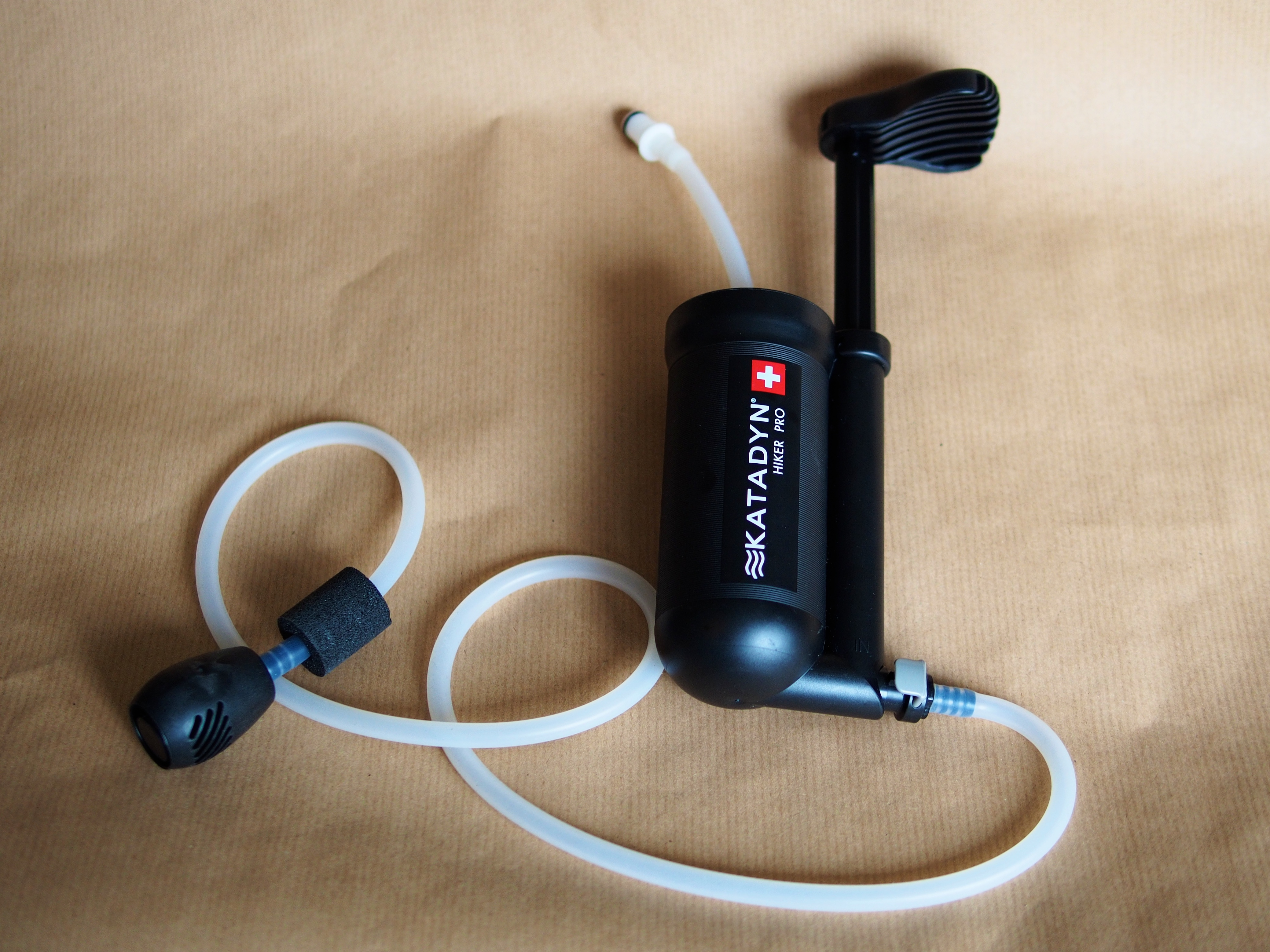 Water filter (pocket filter) model Katadyn Hiker Pro, 2012